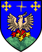 tullamore crest